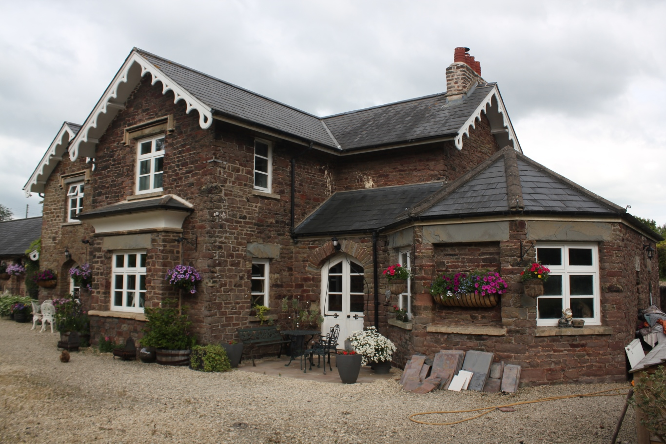 The station at Mangotsfield was opened by the Bristol & Gloucester Railway in 1845 on the site of the junction between two older tramways, the Avon & Gloucestershire and the Bristol & Gloucestershire Railway. The station was moved southwards to the junction with a new branch to Bath in 1869, after which this site was just used for goods traffic. It is now a private house.